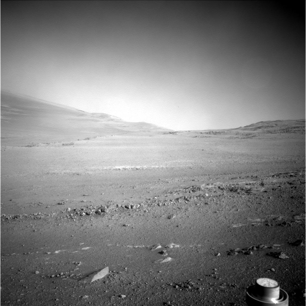 Navigation Camera Sol 4959 of the MER-B Opportunity rover on Mars